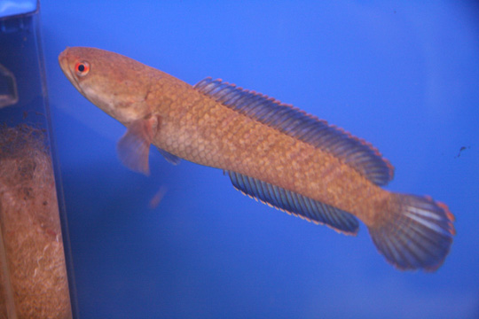 A blue-nosed snakehead fish (Thai: ปลากั๊ง) at the 20th Pramong Nomklao fish show event at the Future Park Rangsit, Thailand, in July 2008. The specimen was labelled as Channa limbata by the event organizers, but some sources that did not recognize this species would consider it a Channa gachua instead. Picture taken by myself.